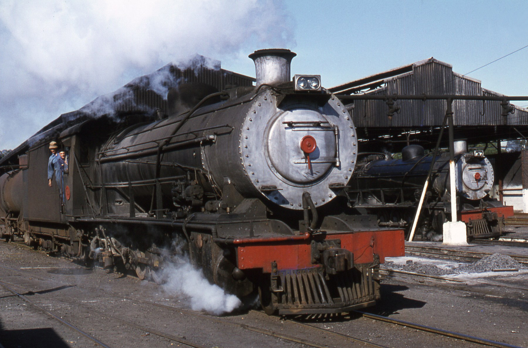 SAR Class 14R 1905 (4-8-2) Location: Klerksdorp